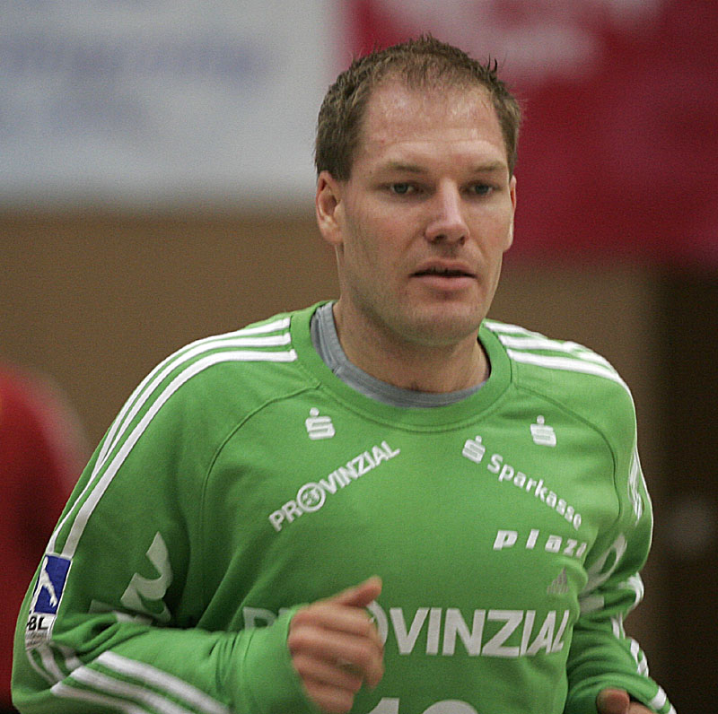 Mattias Andersson, Swedisch goalkeeper from THW Kiel, during the Schlecker Cup 2007 in Ehingen (Germany)